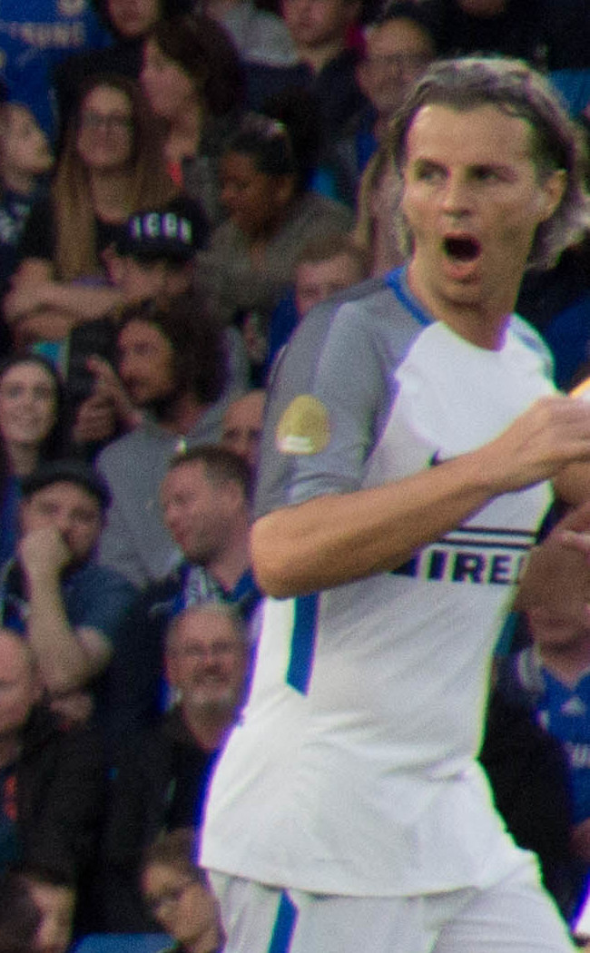 Francesco Colonnese with Inter Legends team called Inter Forever during a friendly match against Chelsea Legends at Stamford Bridge.